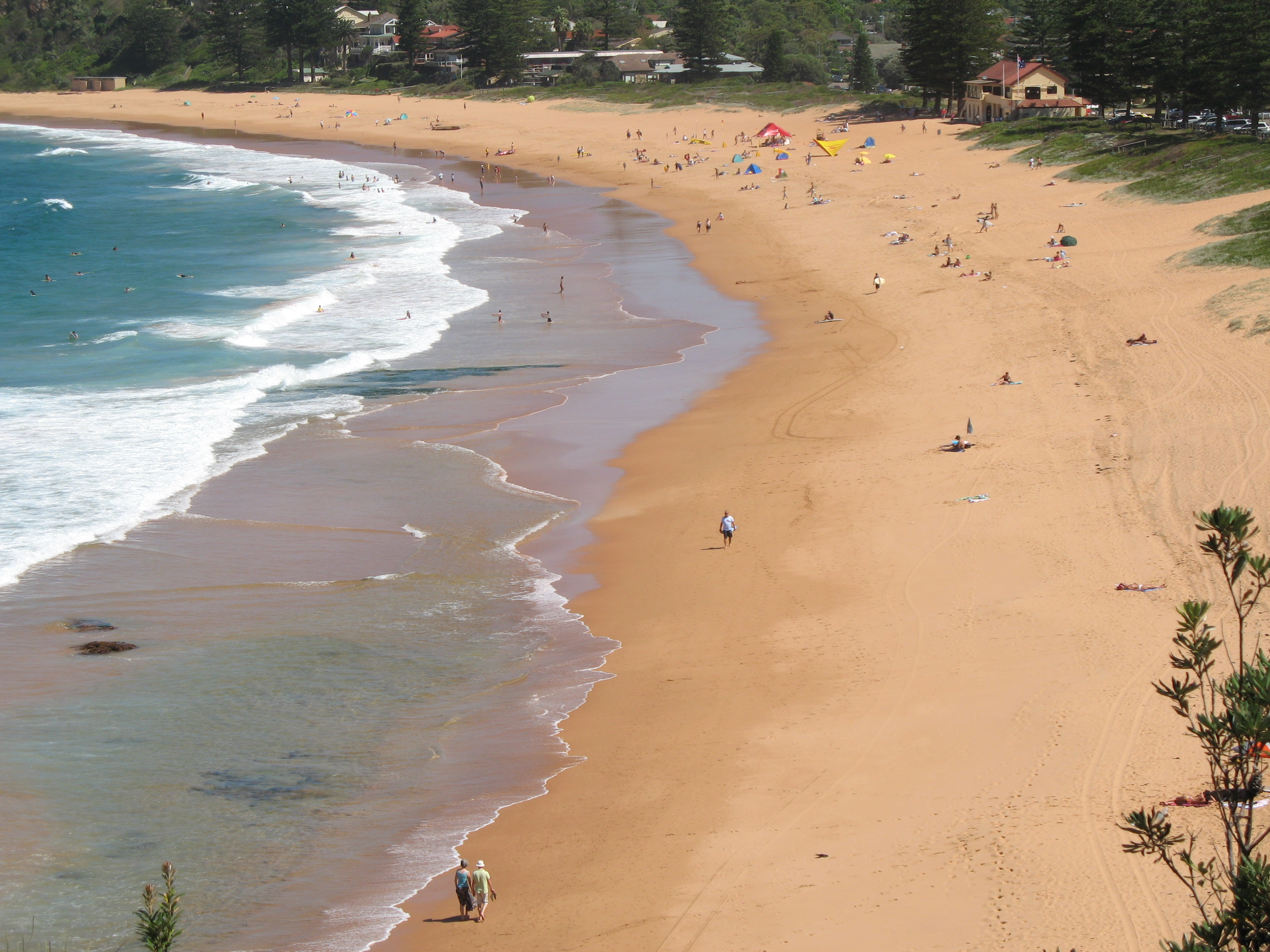 The beach at Newport, New South Wales. La spiaggia di Newport, Nuovo Galles del Sud.